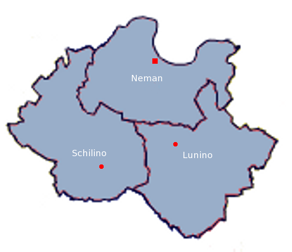 The administrational division of the Nemansky District in German transcription